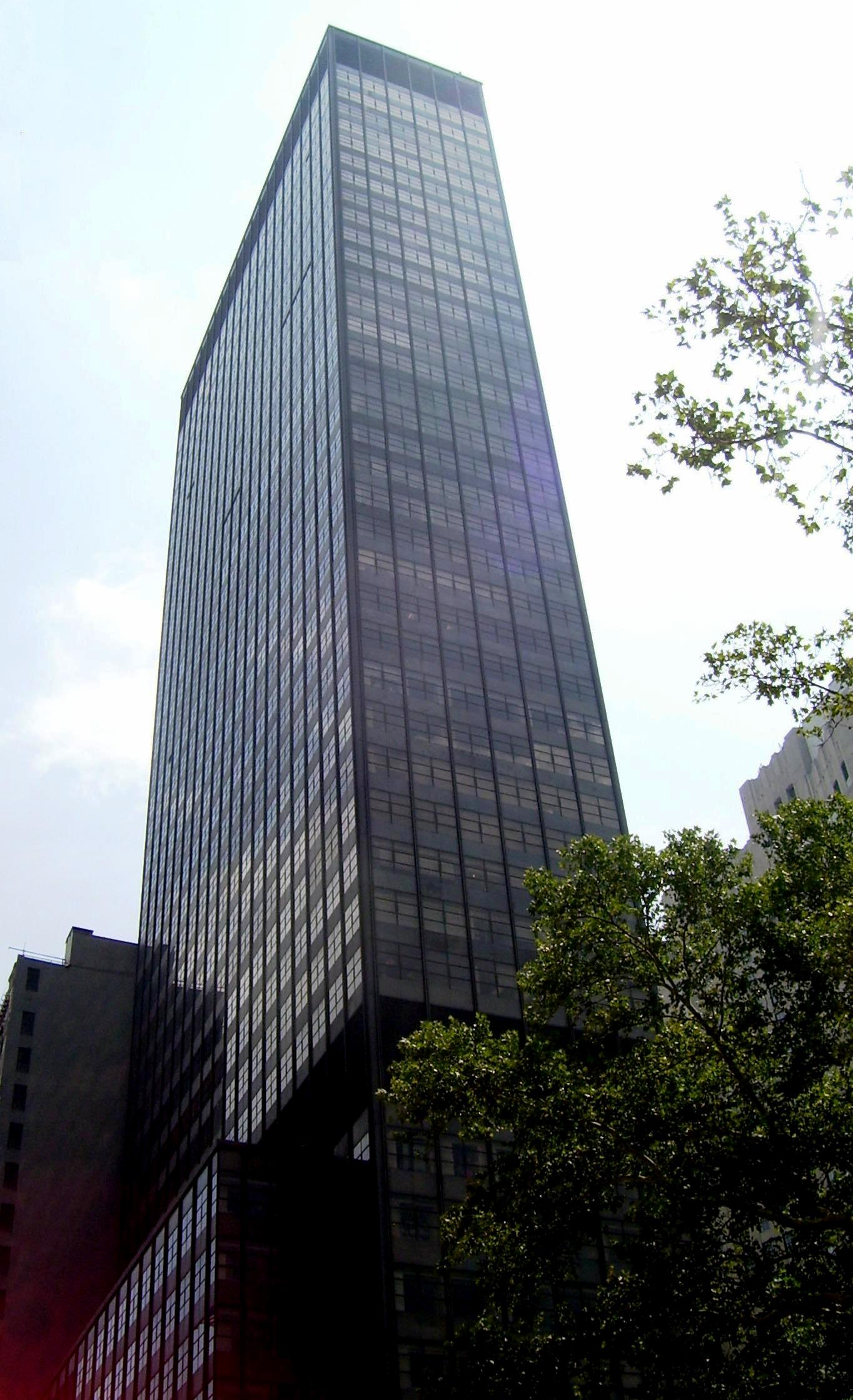 New York Merchandise Mart at 41 Madison Avenue in Manhattan, New York City. International style 42-floor skyscraper designed by Emery Roth & Sons, built in 1974.